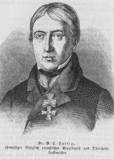 German forester and forestry scientist Georg Ludwig Hartig (1764-1837).